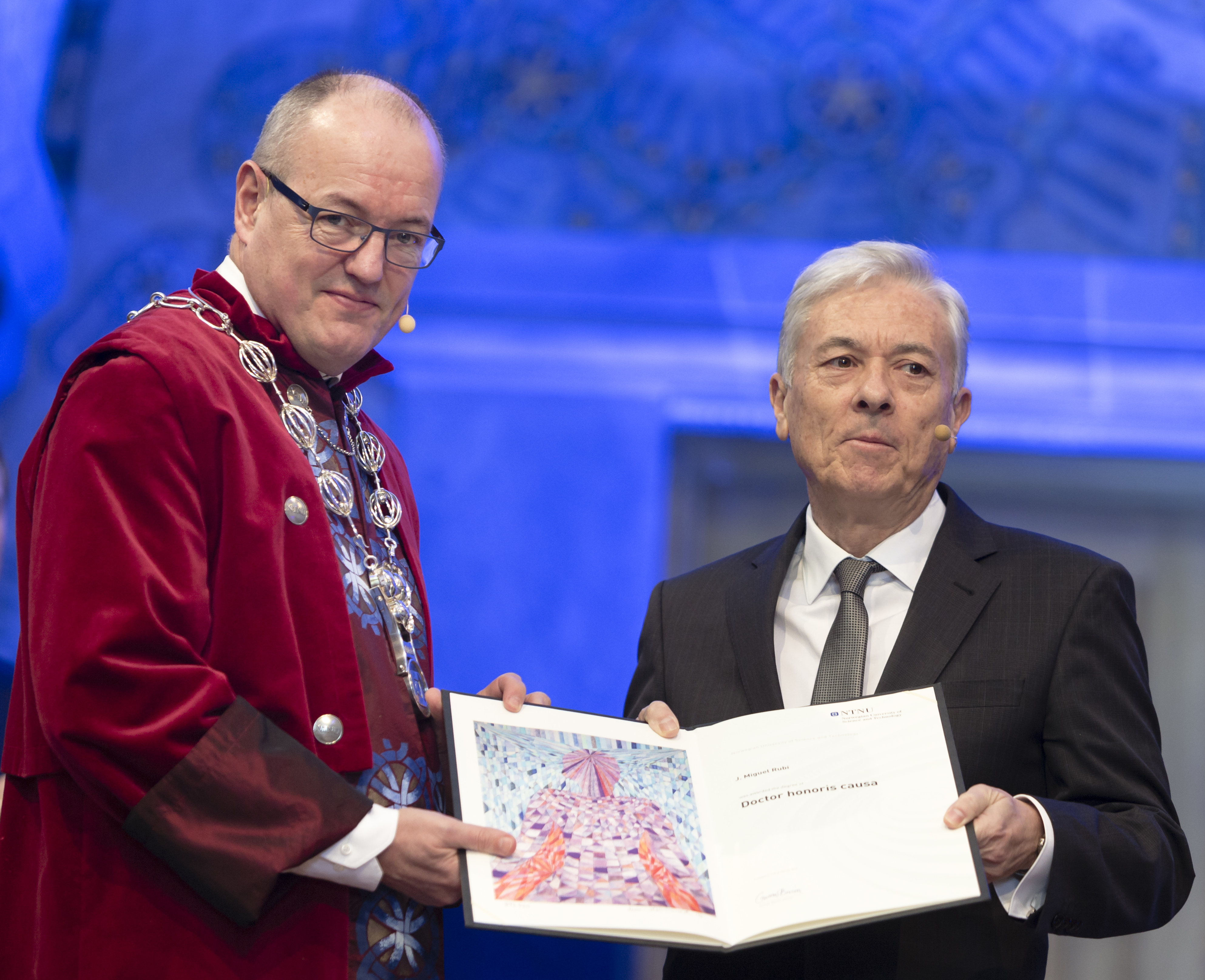 The Spanish physicist professor Miguel Rubi at the occasion when he received his honorary doctorate at Norwegian University of Science and Technology (NTNU) in Trondheim, Norway. Left: Rector Gunnar Bovim